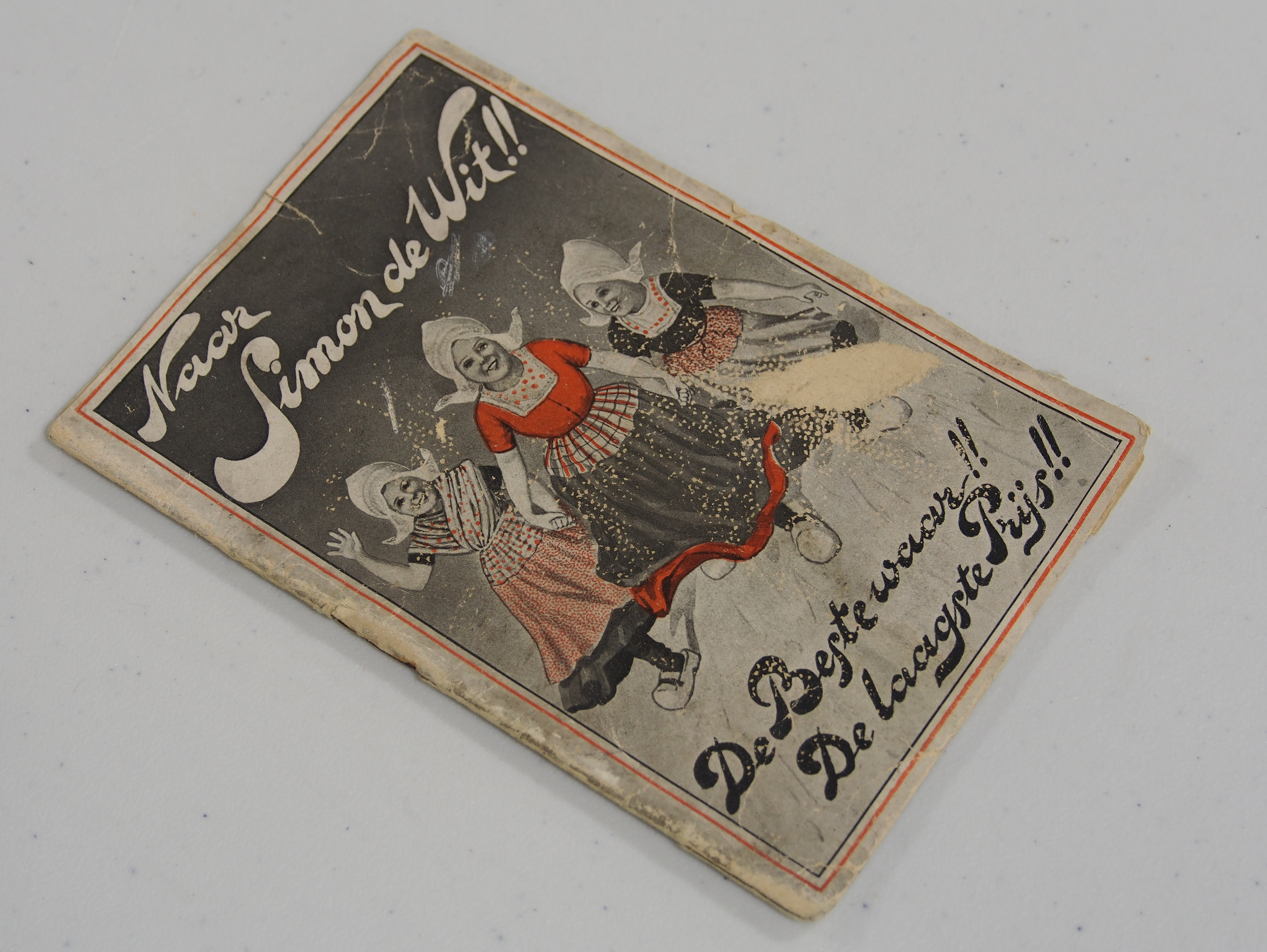 Old product that is not produced and not sold anymore for a very long time and the company does not exist anymore either.